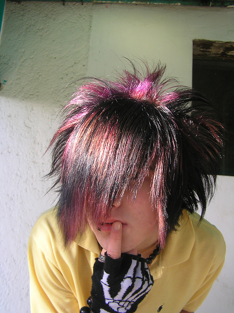 An example for emo style